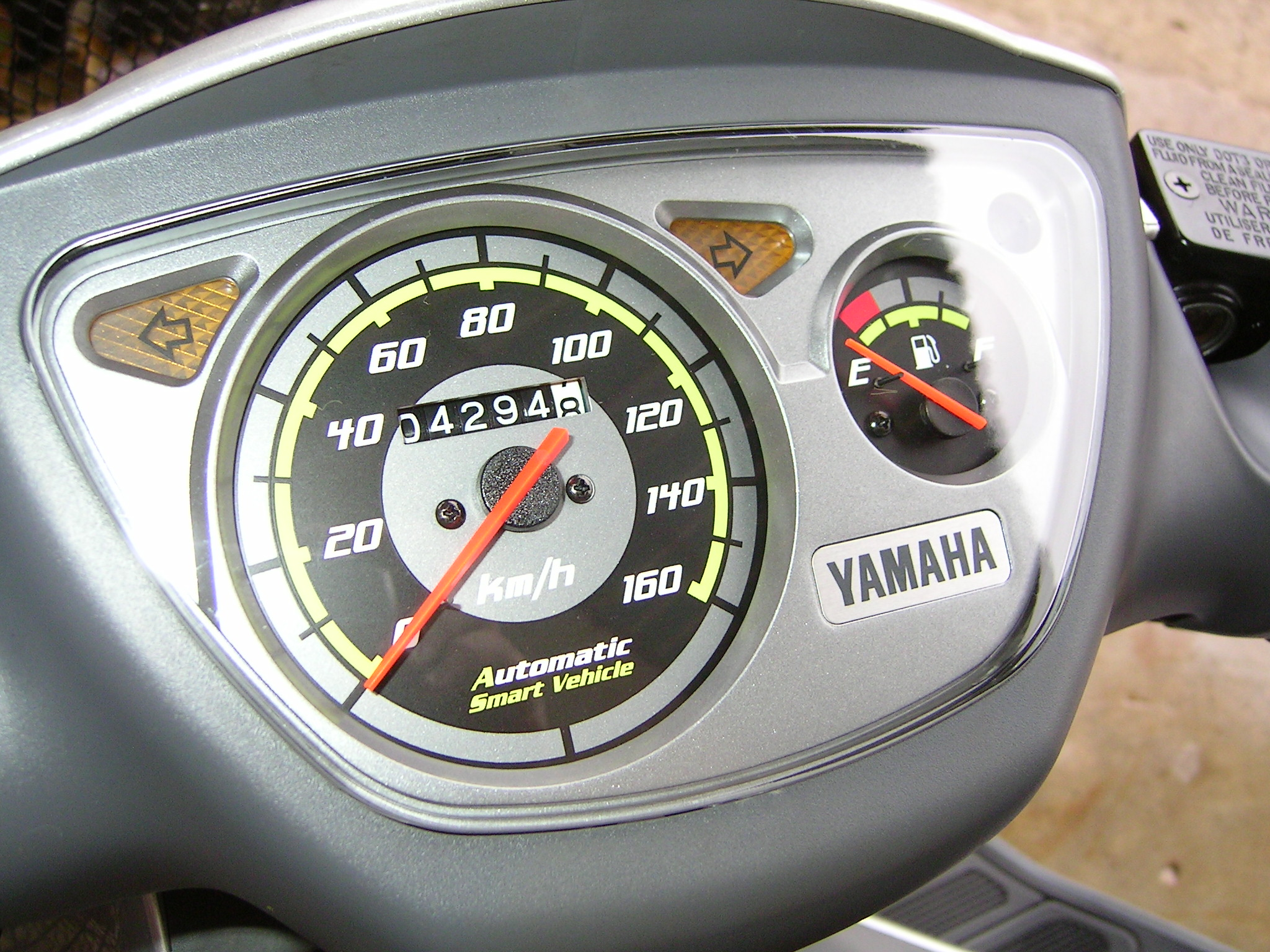 Speedometer and fuel gauge of Yamaha Nouvo scooter, 115cc, Thailand.